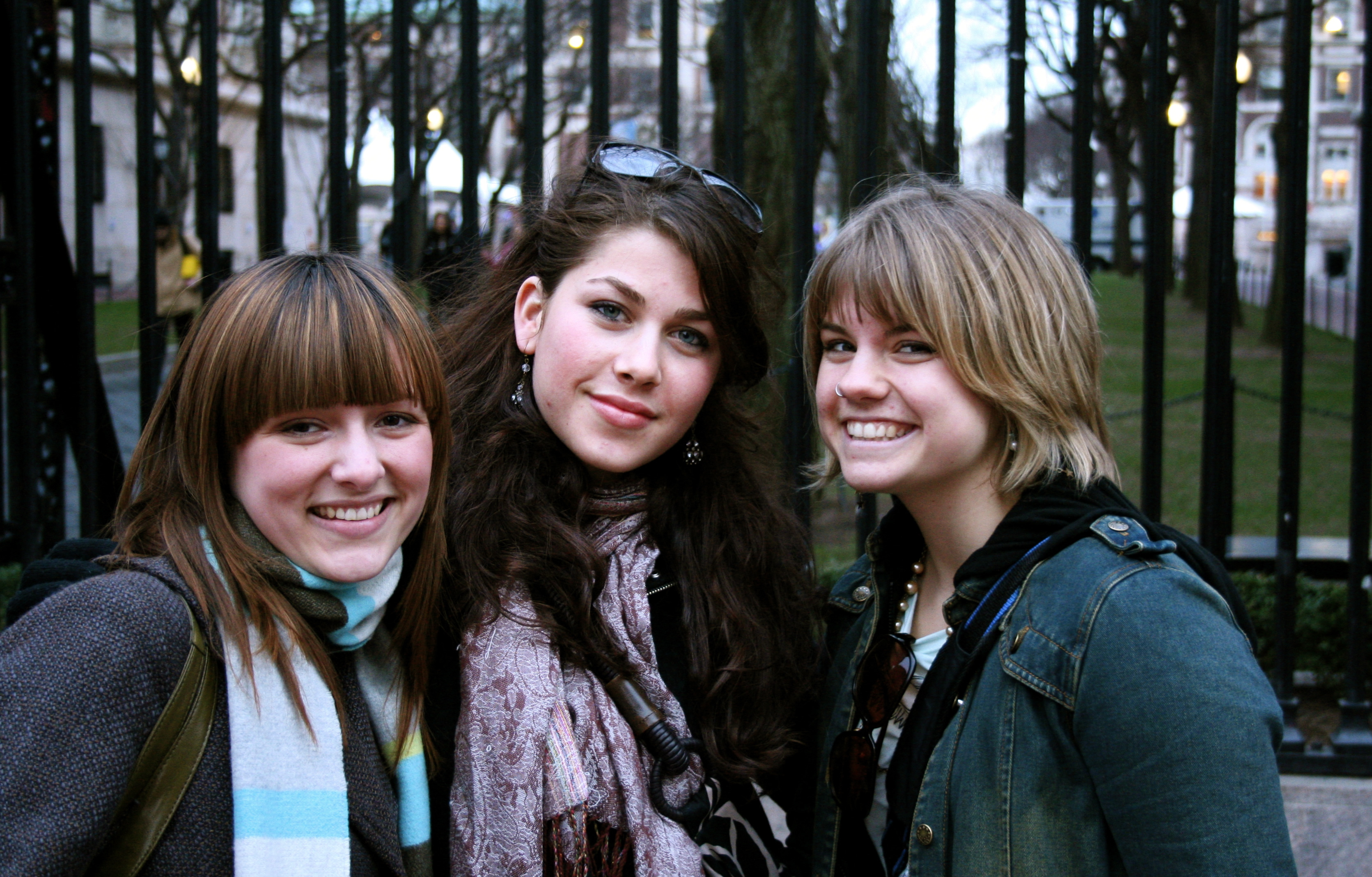 Friends at Columbia University.